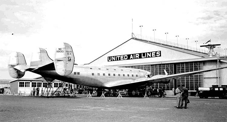 The giant new DC-4E was flown from the factory to the United Air Lines base at Oakland Airport before leaving on a publicity tour. The photograph was taken the next day, May 20, 1939, during a press interview.